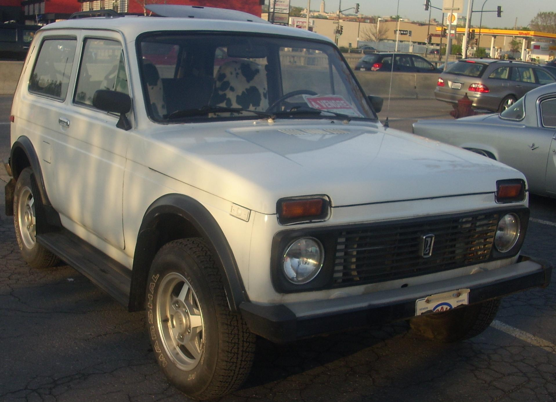 Lada Niva photographed in Montreal, Quebec, Canada at Gibeau Orange Julep.